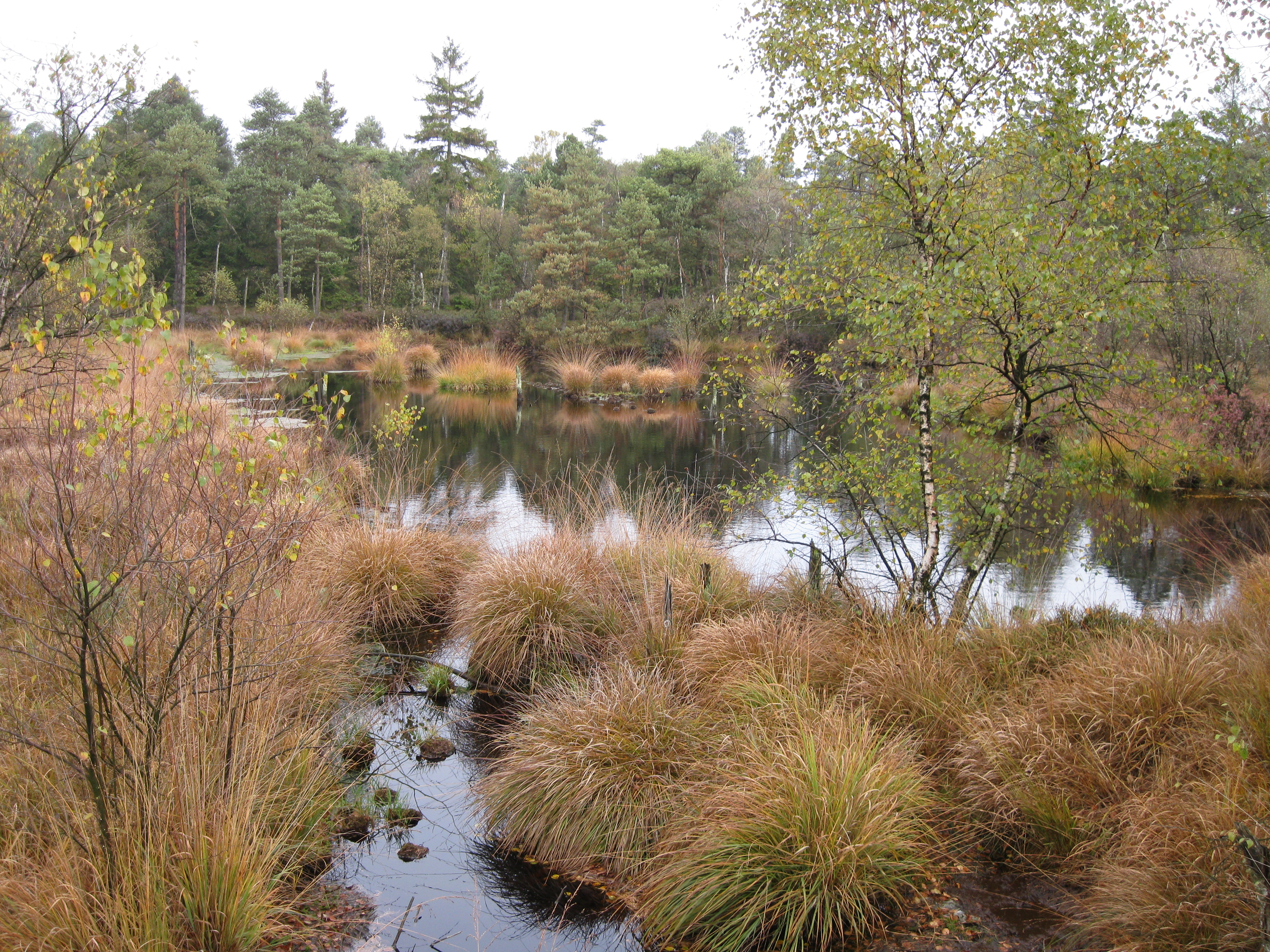 Grundloses Moor, Germany